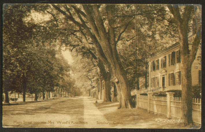 Postcard: Main Street, Simsbury, Connecticut Description: "[Title:] Main St Mrs Wood's House Simsbury CT postcard 1921 [...] Written, stamped & mailed. Date in title indicates full date as shown on postmark. Card may have been manufactured around that date, or much earlier. Standard-size postcard." Caption states: "Main Street opposite Mrs. Wood's Residence, Simsbury, Conn."